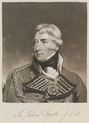 Portait of Sir John Doyle